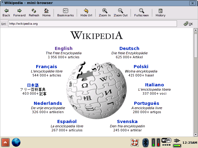 This is a screenshot I took with my Sharp Zaurus C1000 running GPE, the mobile gui whose article displays this image. GPE is GPL software and runs on top of embedded Linux distributions. Wikipedia logo is NOT GPL, but used to demonstrate rendering of Wikipedia main page on GPE's mobile browser.